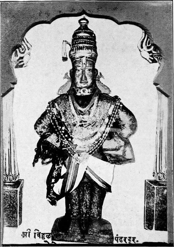 The life and teaching of Tukārām p. 53 illustration of Vithoba